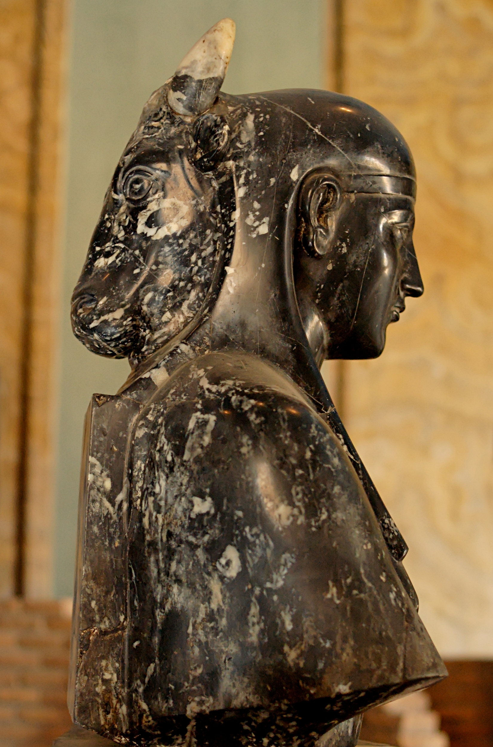 Janiform bust of Antinous as Osiris-Apis (Serapis) springing from a lotus flower. Grey marble, Roman artwork, second part of Hadrian's reign, ca. 131–138 CE.